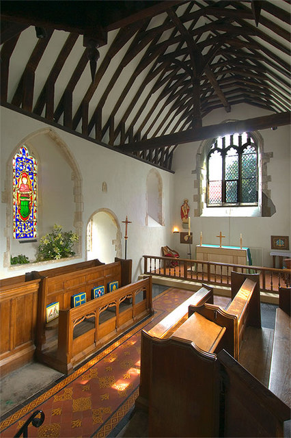 From the Pulpit at Wilmington Church View of the altar and choir stalls at the St. Mary and St. Peters Church at Wilmington, East Sussex. The church is 12th century and lies at the foot of the 'Long Man', a giant chalk figure cut in the downs.